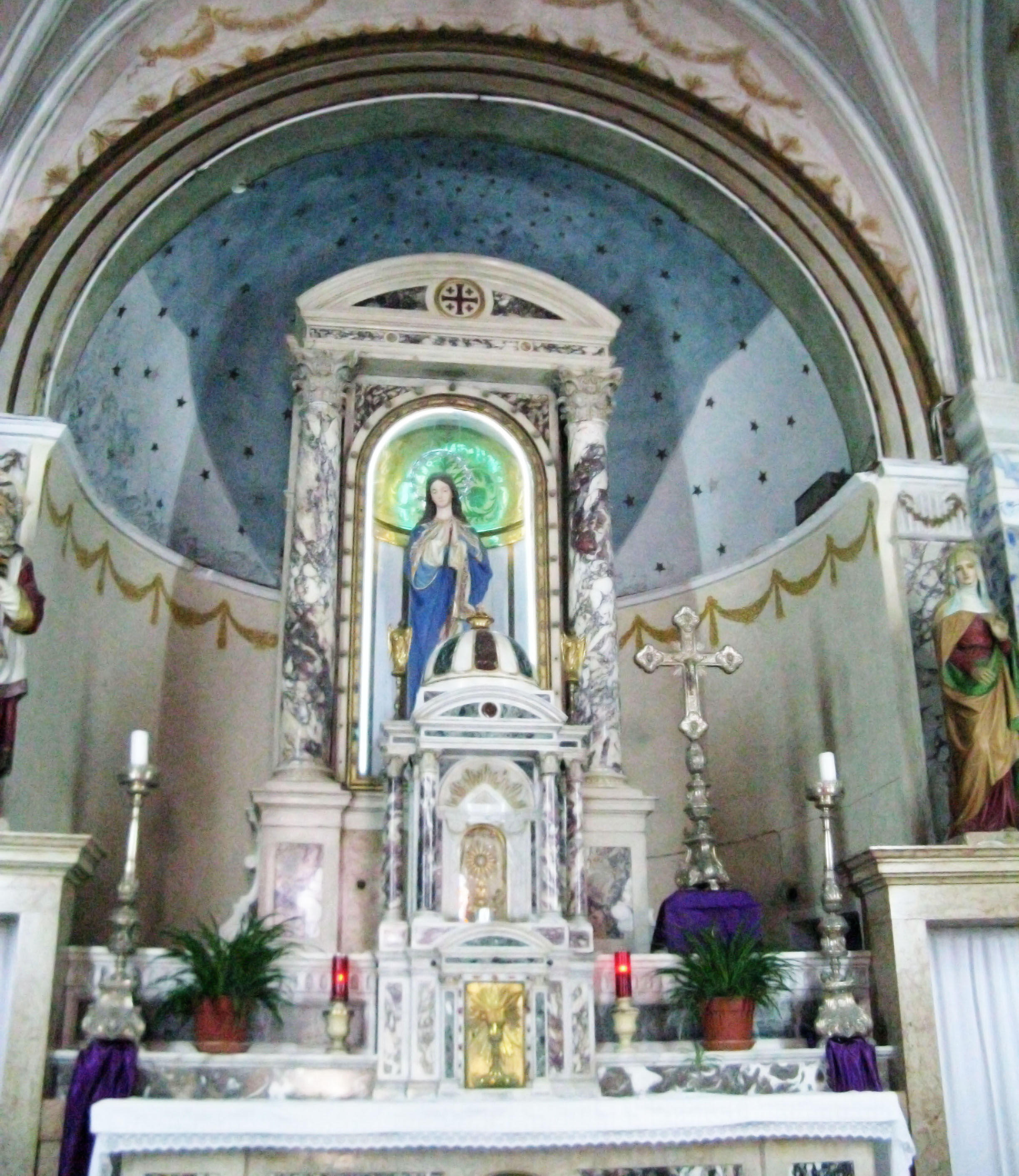 Ein Kerem, St John ba Harim